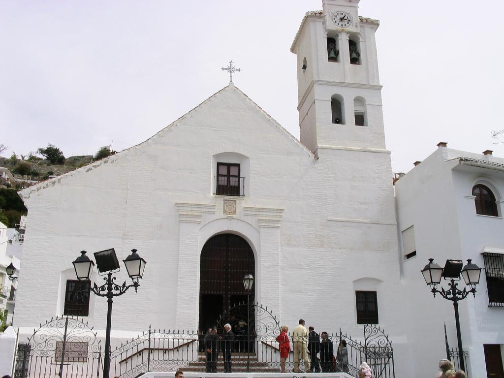 San Antonio Church, Frigiliana. Built in 1676.